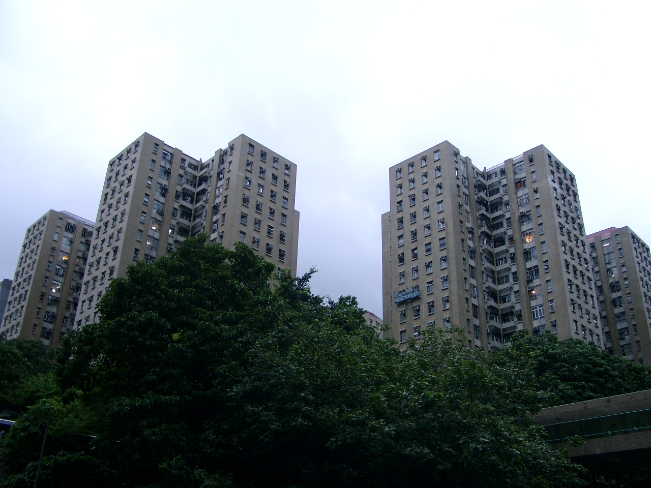 Shun Chi Court, One of the earliest housing estate being built under the Home Ownership Scheme